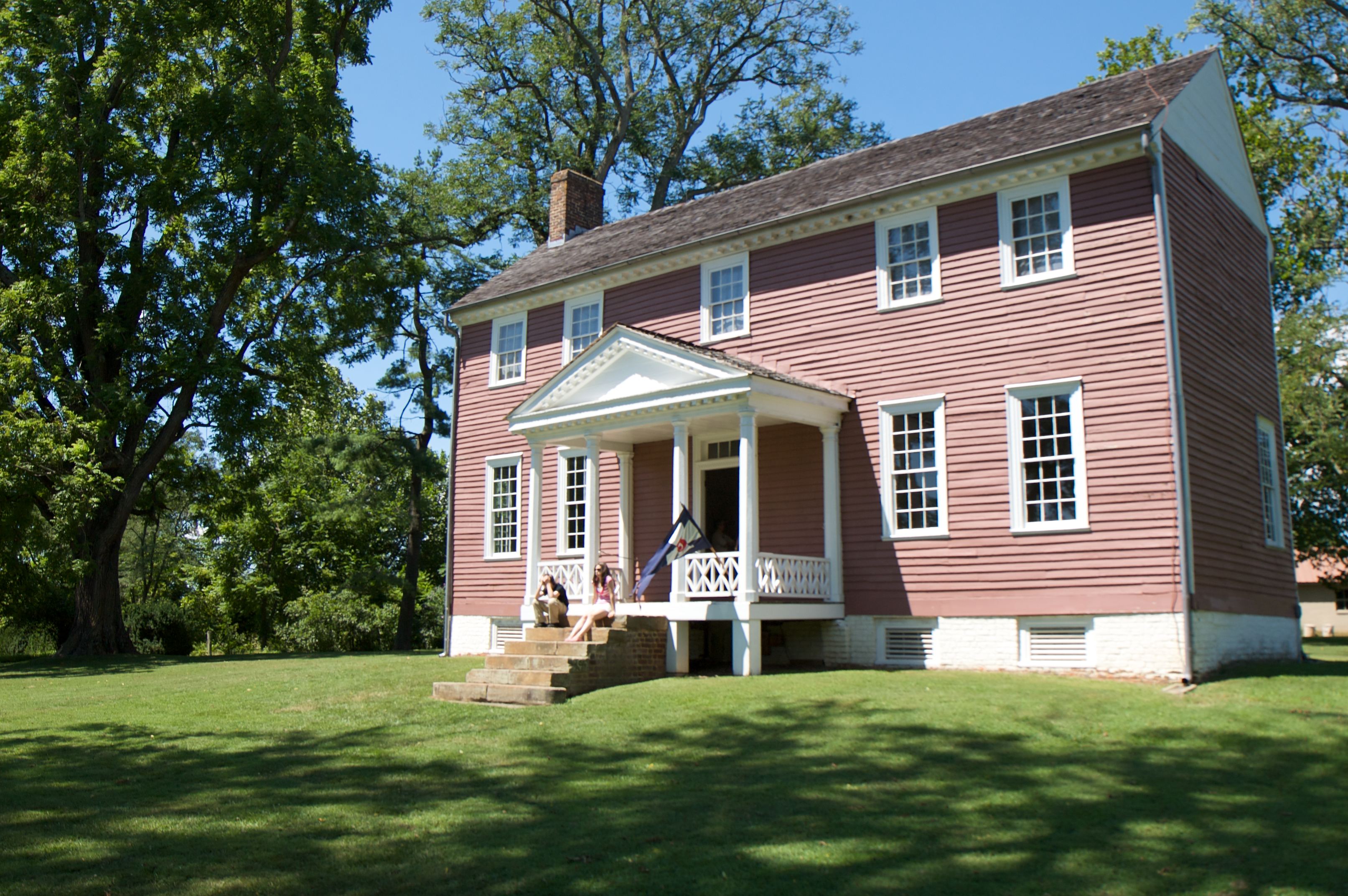 View of the front of Ellwood Manor - originally built around 1790 by William Jones. During the Battle of the Wilderness this structure, then owned by J. Horace Lacy, was used as a headquarters by Gouverneur K. Warren. Ellwood is the last remaining structure from the Battle of the Wilderness still standing today. According to the National Park Service, "Legend holds that "Light Horse Harry" Lee, Robert E. Lee's father, wrote his memoirs in one of the upstairs bedrooms. In 1825, Revolutionary War hero Marquis de Lafayette dined at Ellwood during his triumphant tour of America. Other founding fathers, such as James Madison and James Monroe, may have stopped here, too." Photo by Rob Shenk